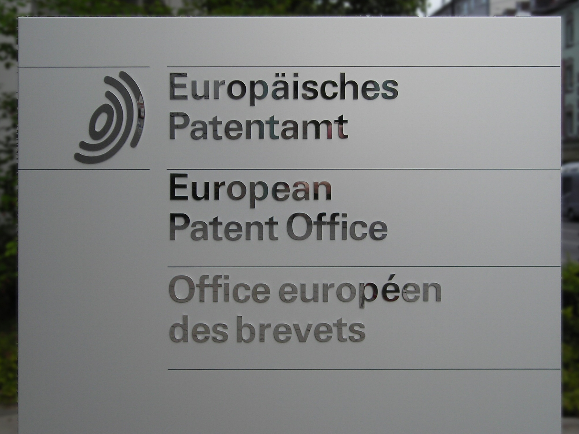 Sign of European Patent Office (Europäisches Patentamt), seen in Munich, Germany (Bayerstraße 34)